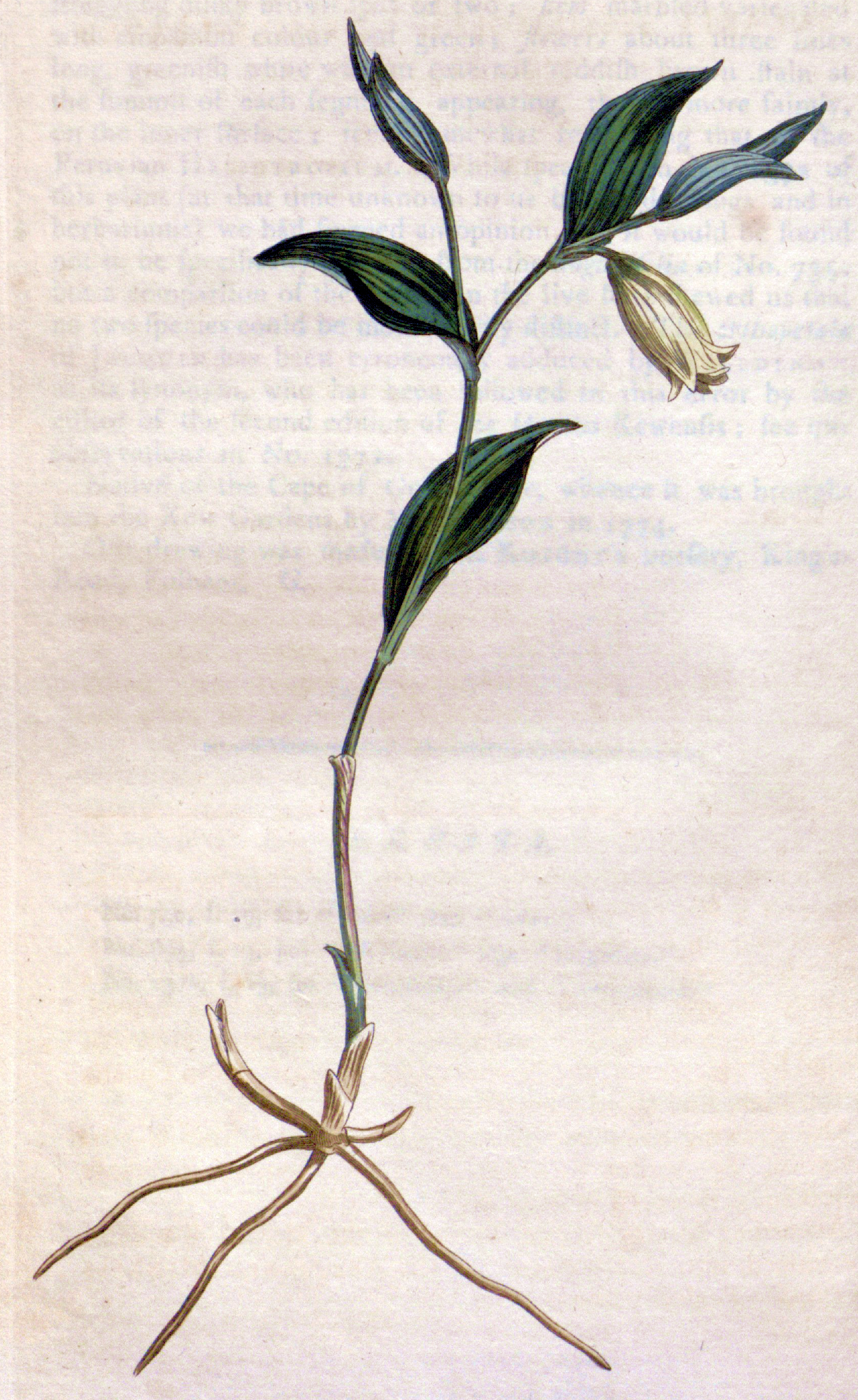 Uvularia sessilifolia